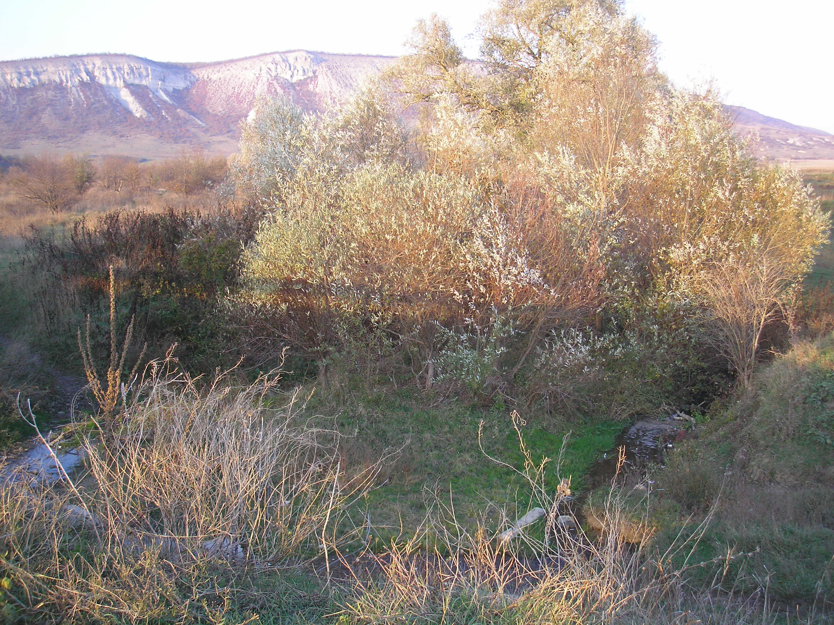 River Mokry Indol, Crimea.